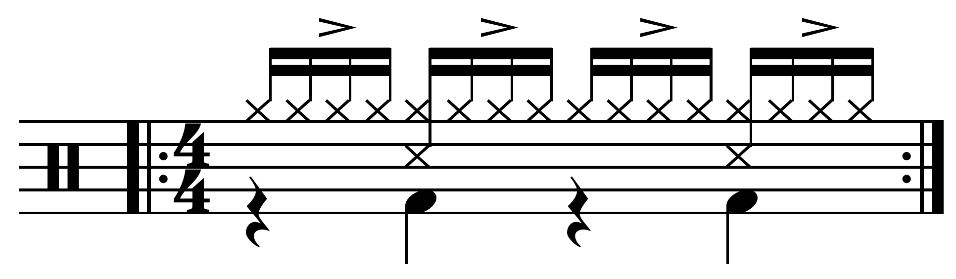 Reggae one drop drum pattern, sixteenth-note variation.